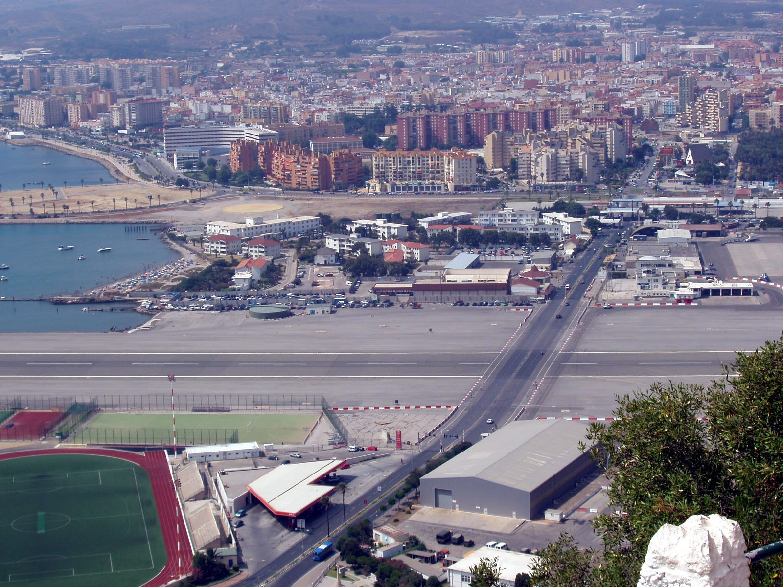 Gibraltar airport and airfield from the Rock of Gibraltar.